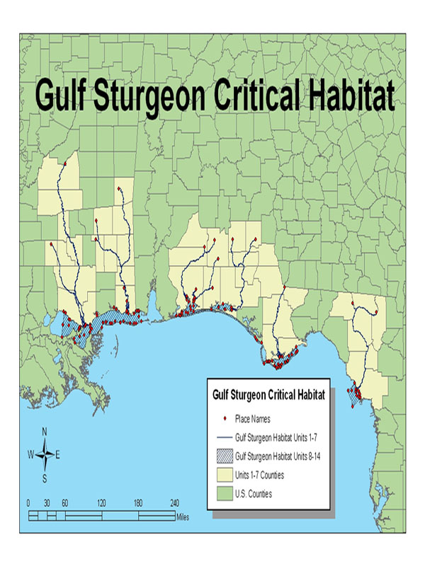 Map of critical habitat for the U.S. endangered species Gulf sturgeon (Acipenser oxyrhynchus desotoi) as designated in 2003.